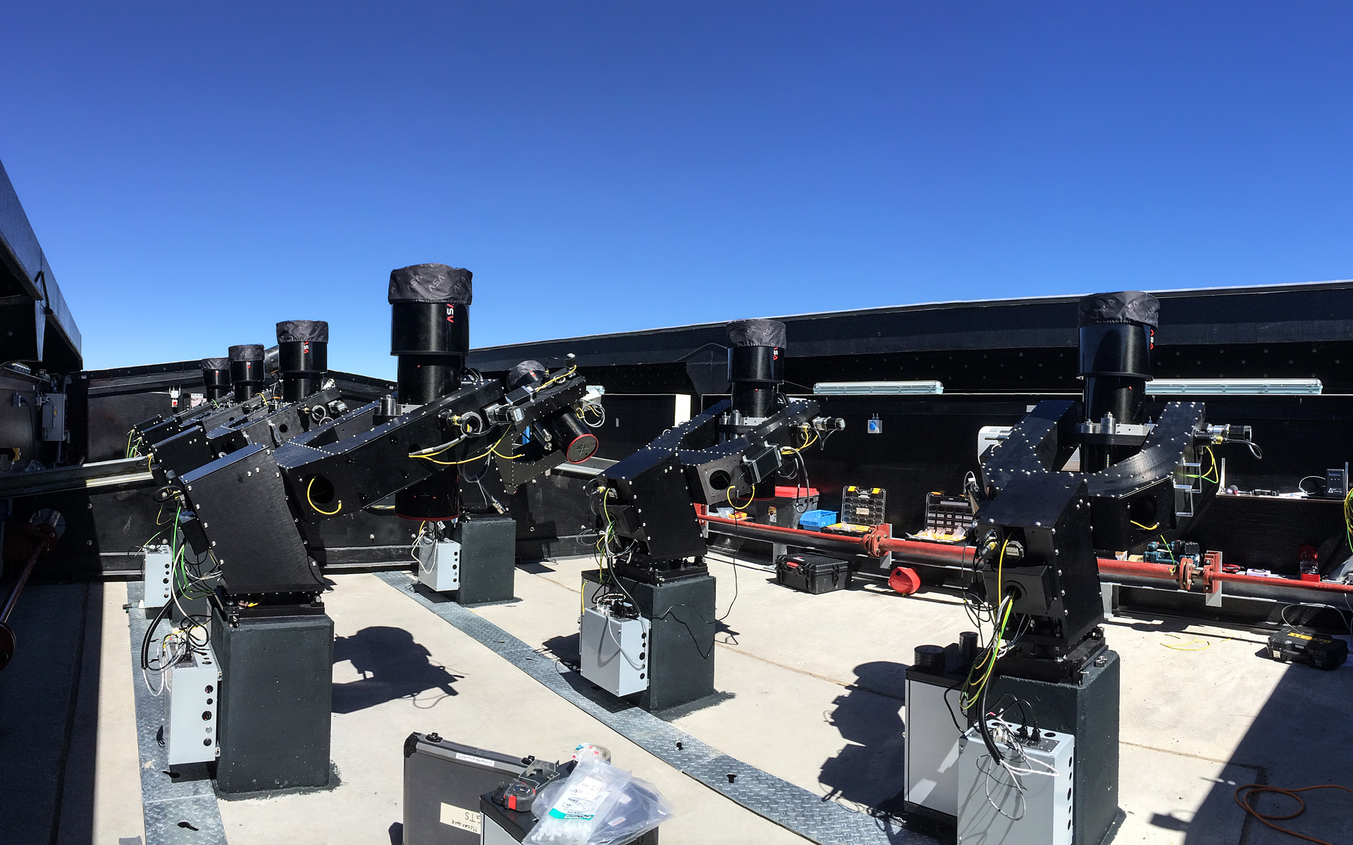 The Next-Generation Transit Survey (NGTS) is located at ESO's Paranal Observatory in northern Chile. This project will search for transiting exoplanets — planets that pass in front of their parent star and hence produce a slight dimming of the star's light that can be detected by sensitive instruments. The telescopes will focus on discovering Neptune-sized and smaller planets, with diameters between two and eight times that of Earth. Most of the 20-centimetre telescopes that form the survey system are shown in this picture taken during testing.